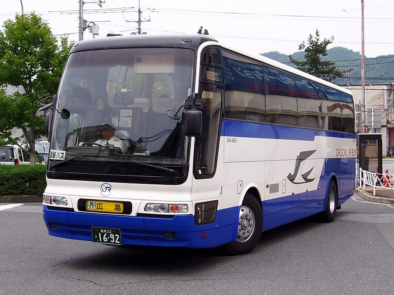 Chugoku JR Bus 644-4960 "Mikoto" Mitsubishi U-MS821P at Miyoshi Sta.